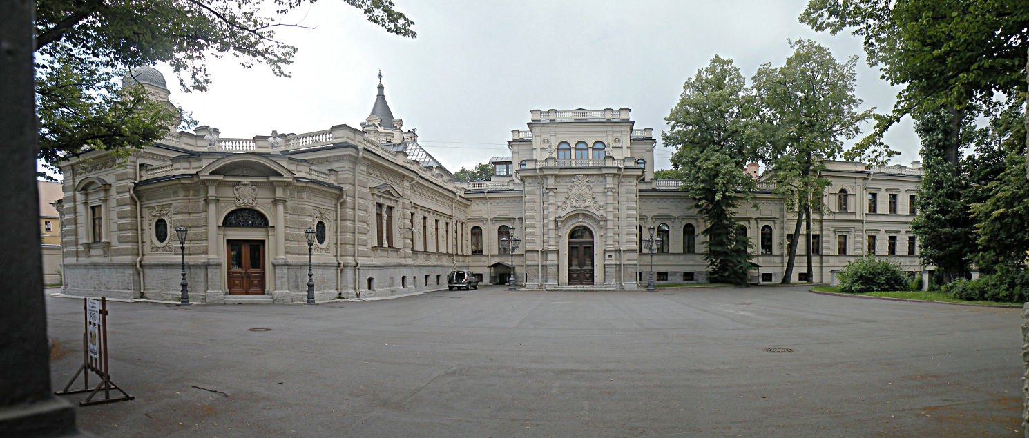 Prince_Alexey_Alexandrovitsch_palace